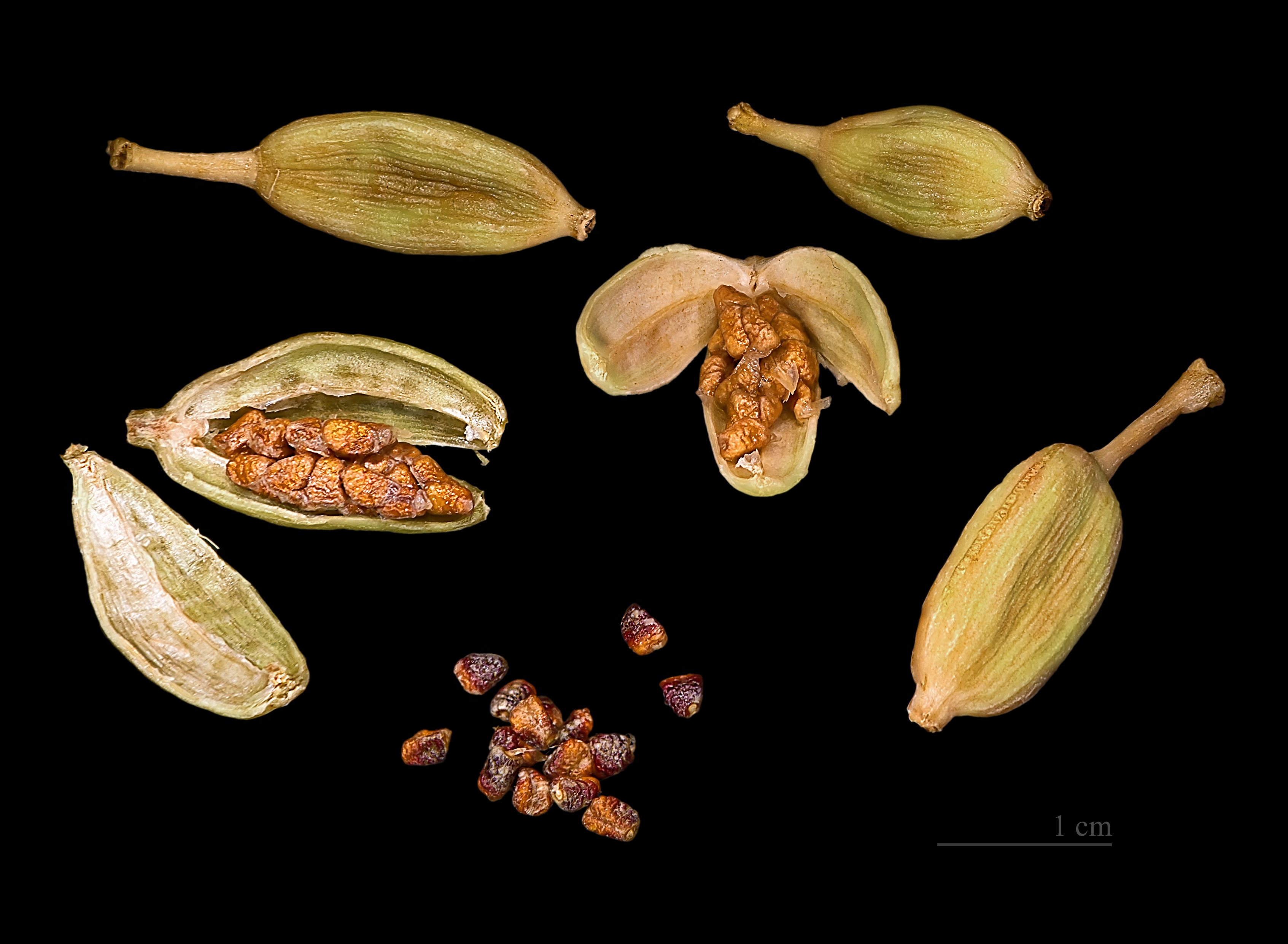 Cardamom, Capsules and seeds.